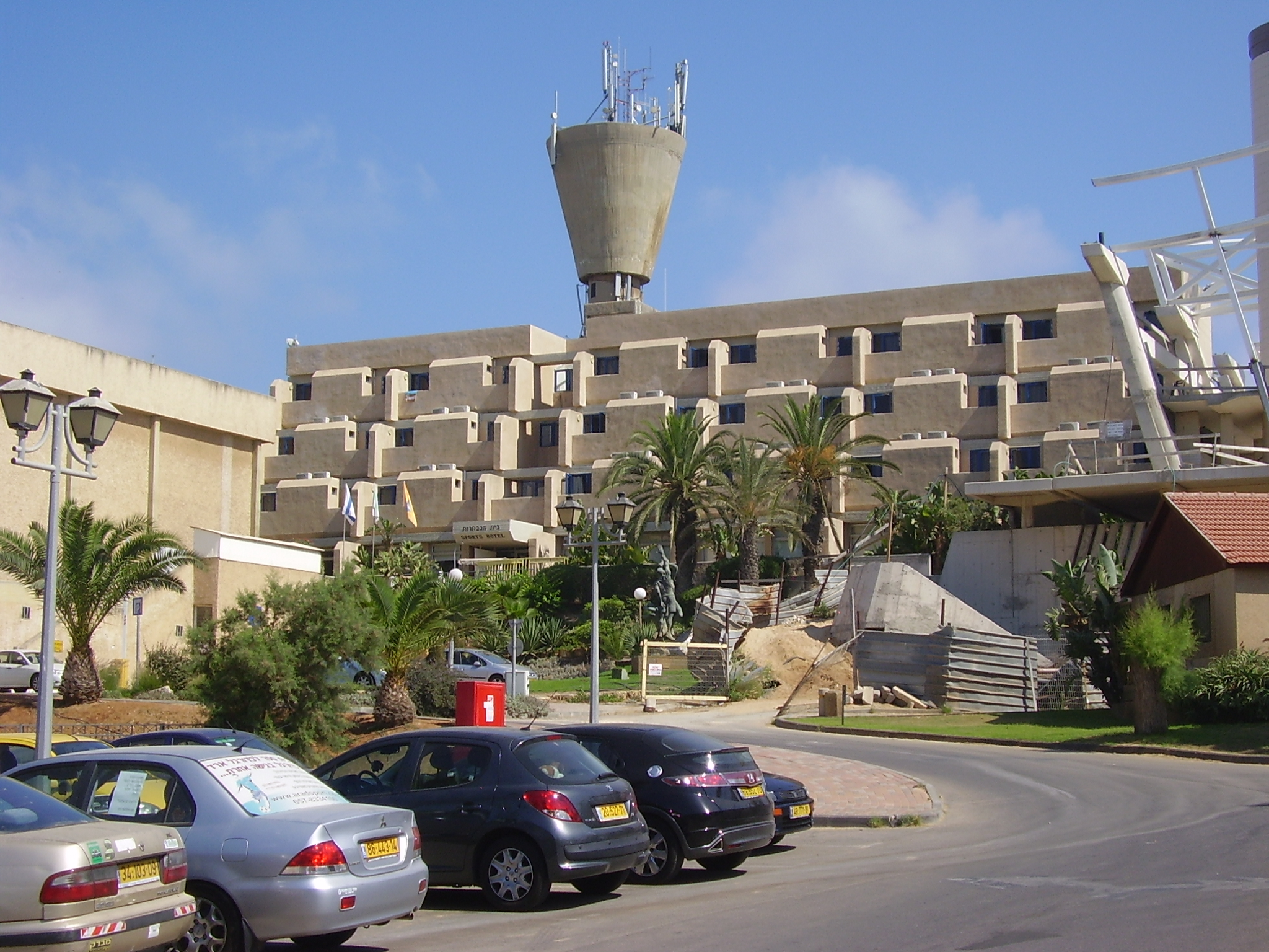 Sports Hotel in Wingate Institute